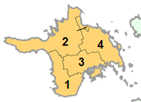 Numbered map showing municipalities of Hiiu County (Estonia) as of 2005. This image was created by Senzeichi.